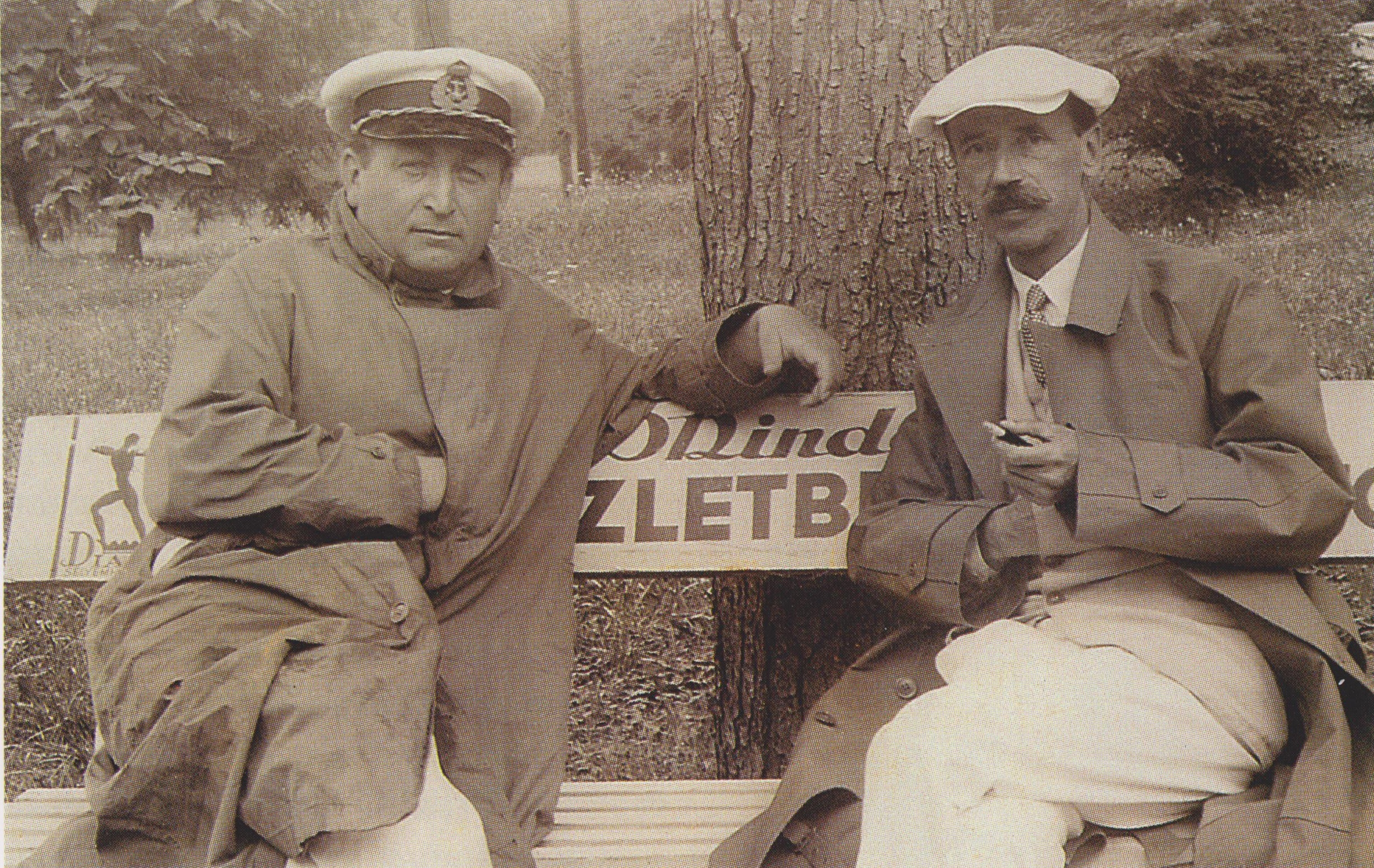 Prime Ministers Gyula Gömbös and István Bethlen in Balatonföldvár, 1932